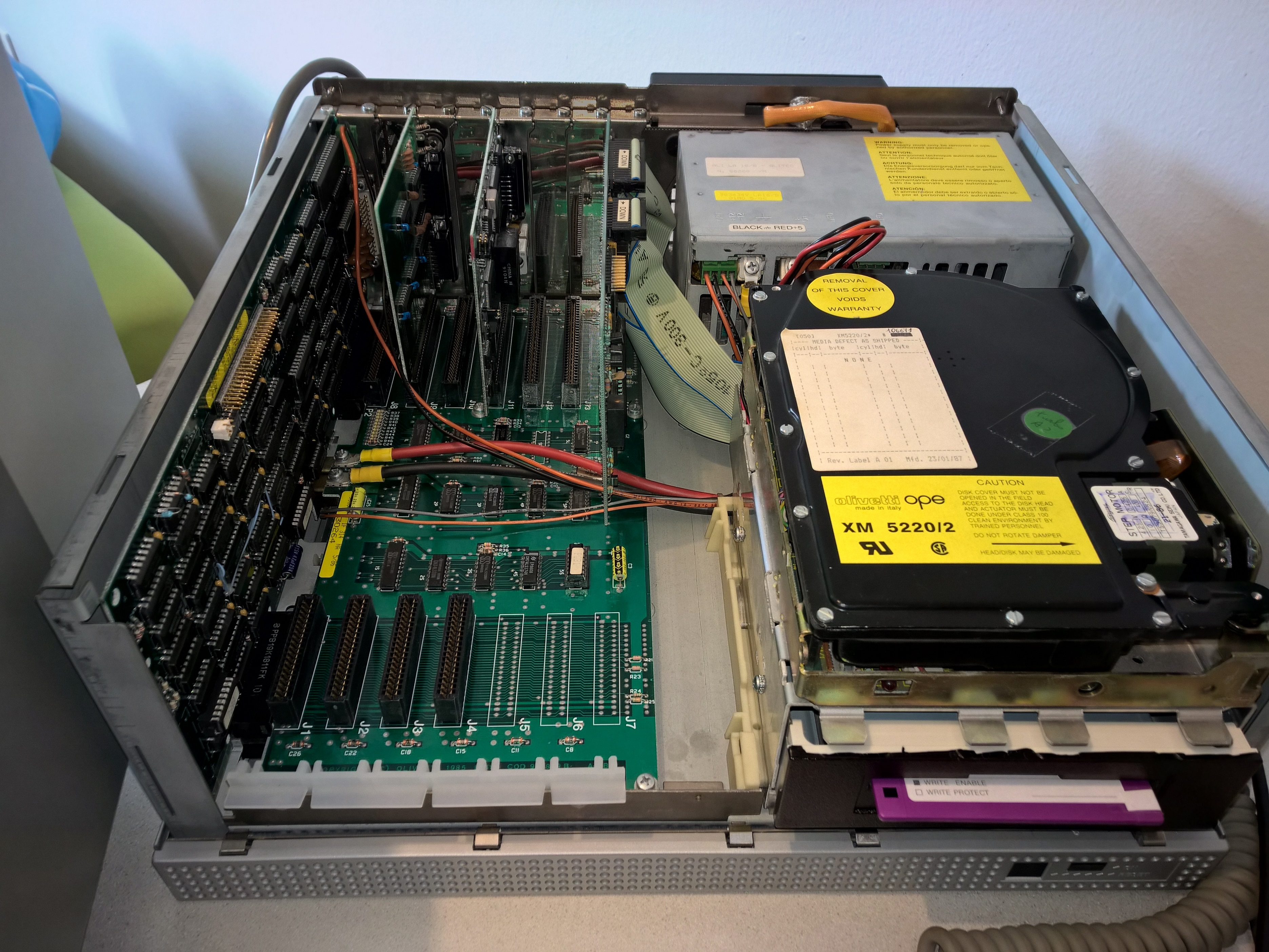 Olivetti M24 SP I/O Board Olivetti CGA Card (640x400 Mono), WD8003ED LAN, Gameport card and MFM/Floppy controller. I/O Board is one of the few 8086-class 16bit bus compatible boards that exist world-wide.